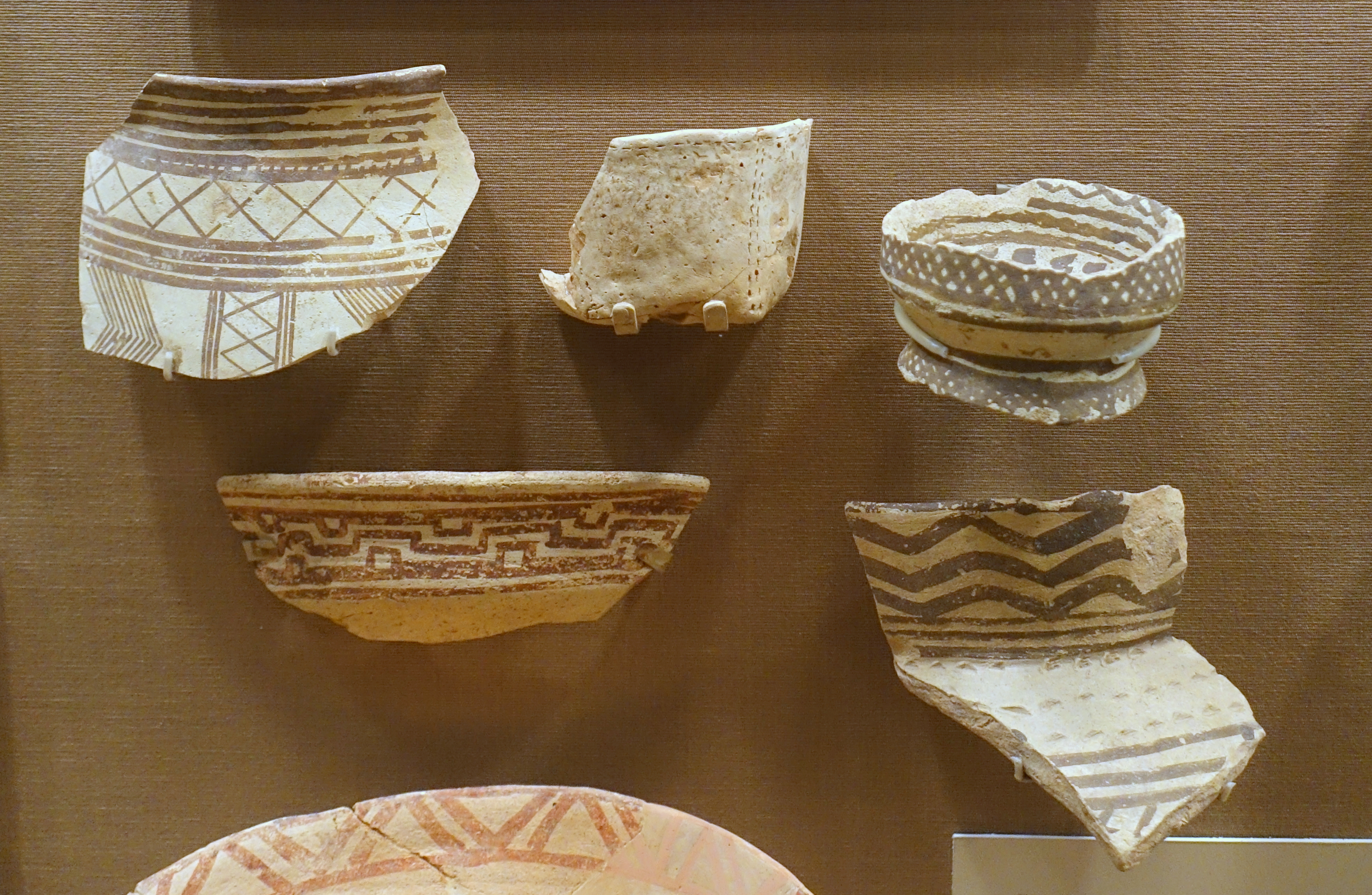 Exhibit in the Oriental Institute Museum, University of Chicago, Chicago, Illinois, USA. This work is old enough so that it is in the public domain.